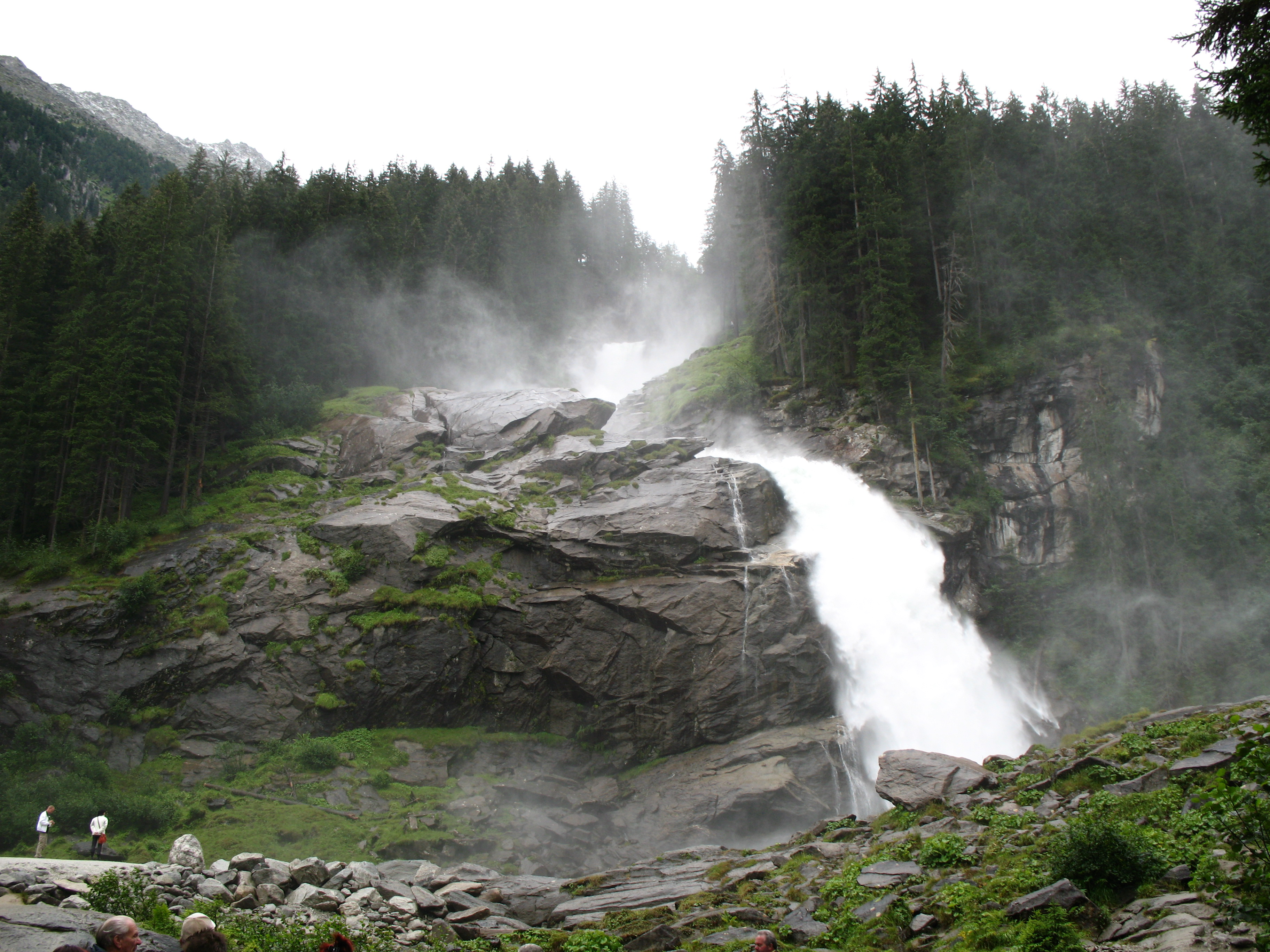 Krimml Waterfall, Hohe Tauern National Park, Austria